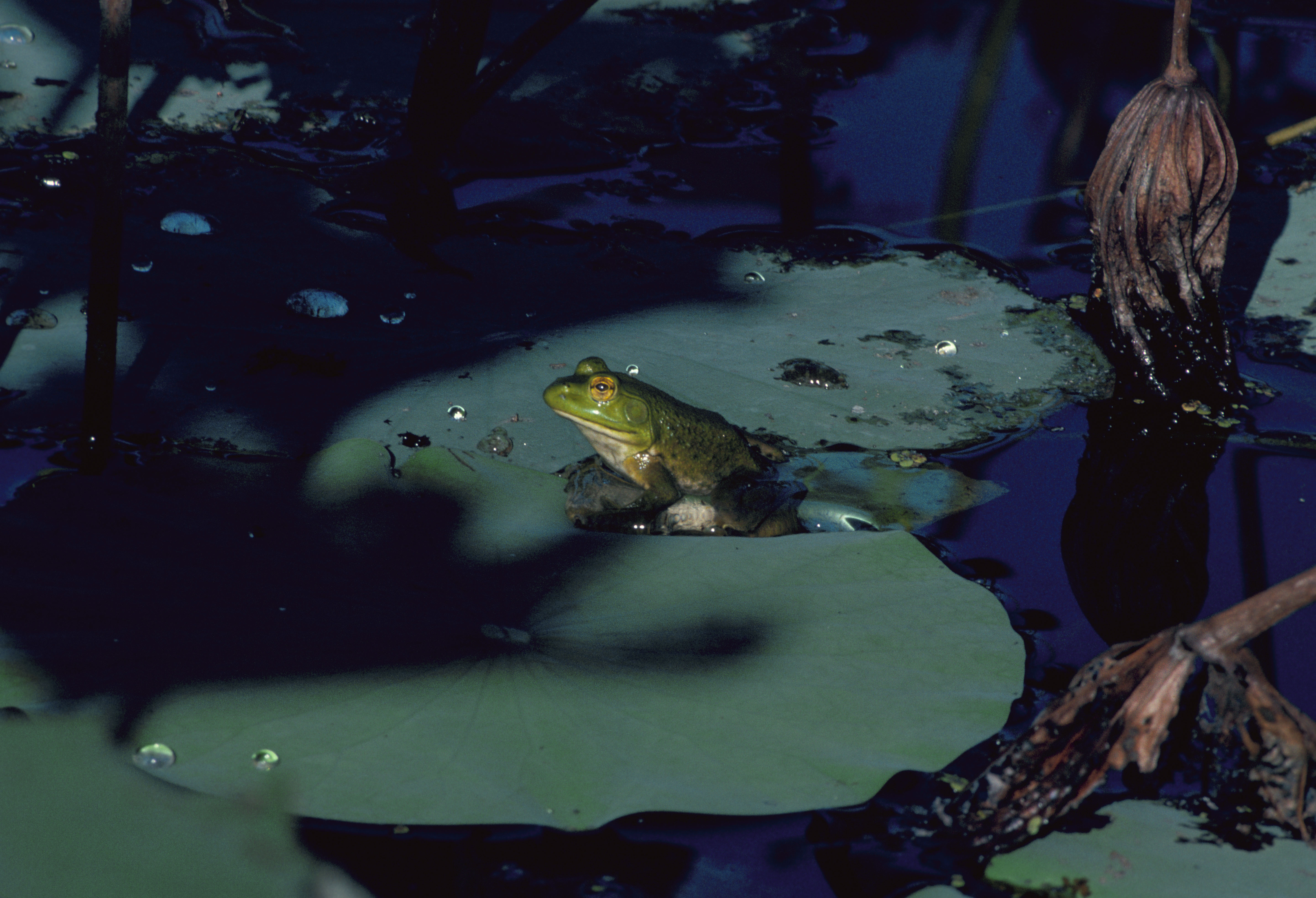 Bullfrog - Rana catesbeiana at Desoto National Wildlife Refuge